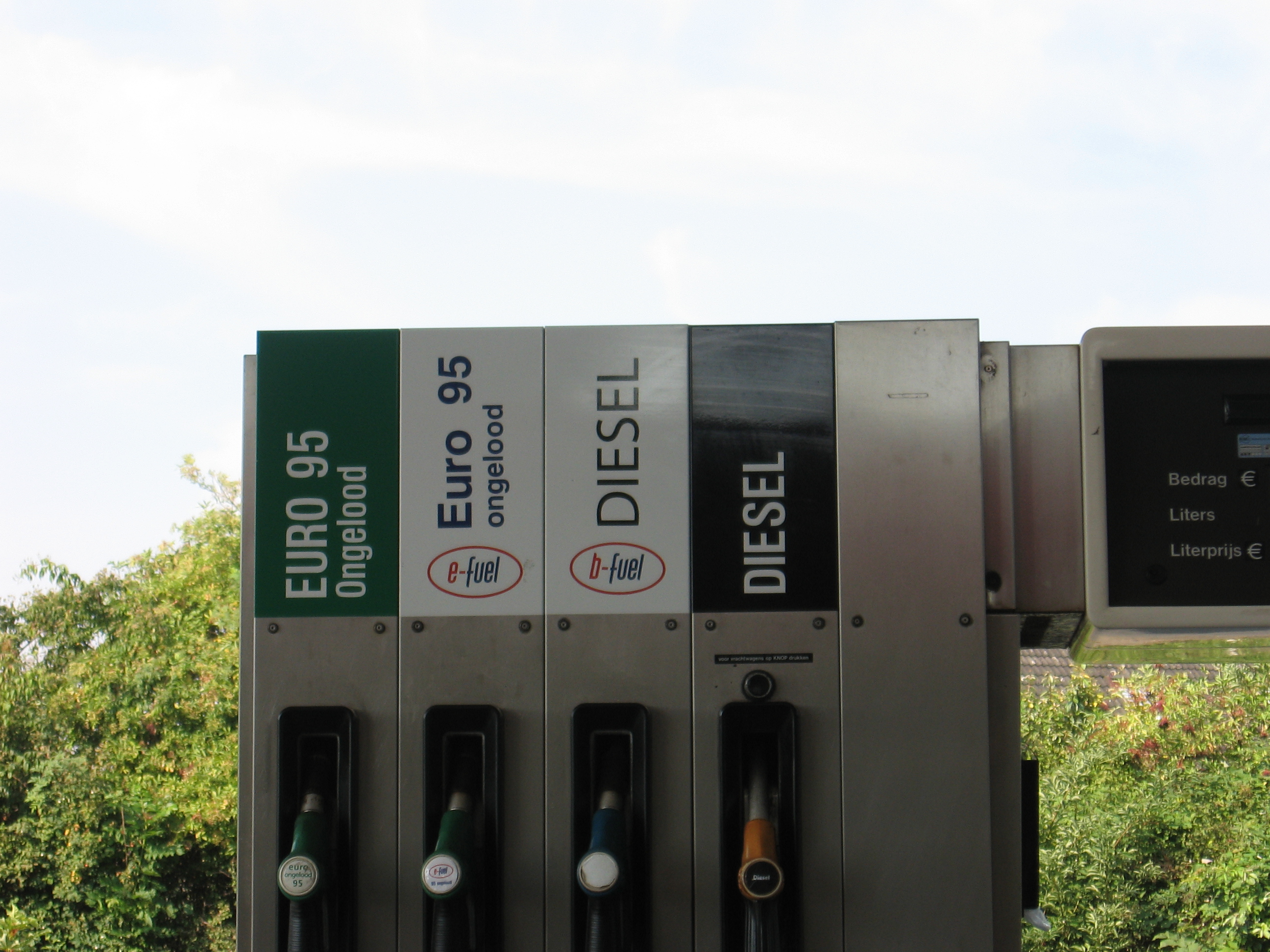 Euro 95 / Euro95 efuel. Picture at Argos Oil gaz station. E5 bij Argos Oil